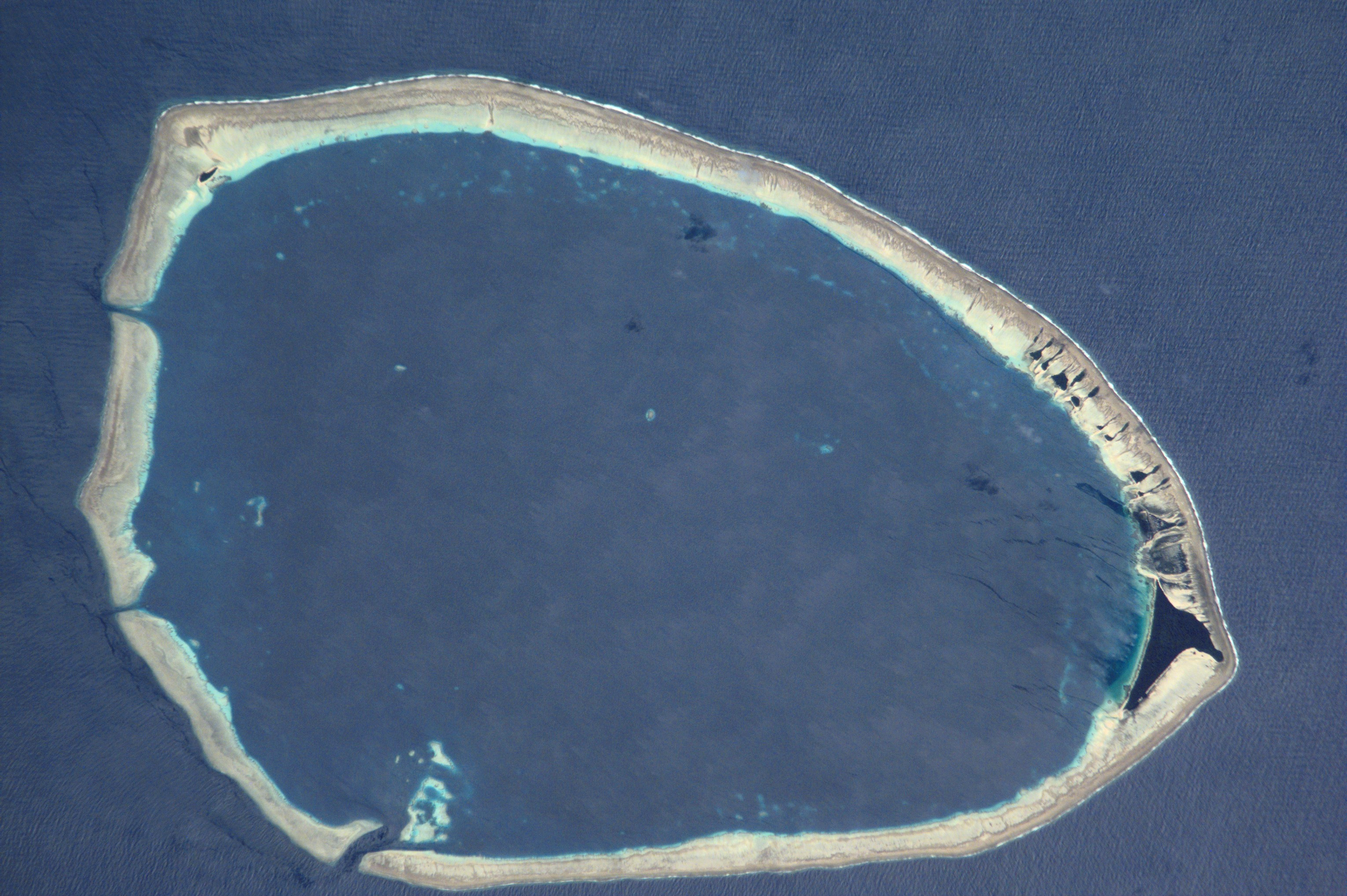 NASA astronaut image of Takuu Atoll, Papua New Guinea